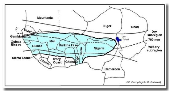 Fonio (Digitaria exilis) cultivation area